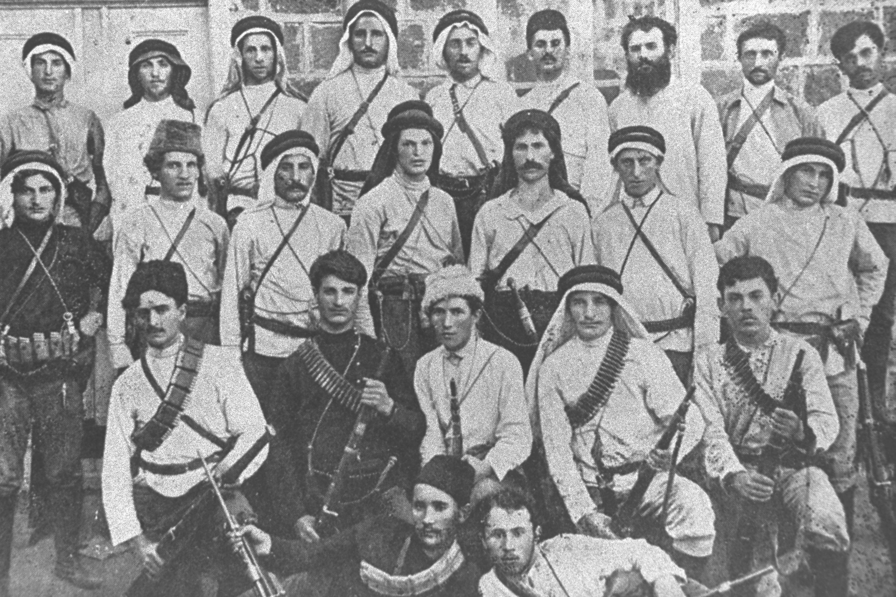 MEMBERS OF THE "HASHOMER" MOVEMENT IN THE UPPER GALILEE. תמונה קבוצתית של אנשי ארגון השומר: מימין לשמאל: שוכבים בחזית חיים גראיבר, בלסקי. שורה שני: יעקב פלדמן, אריה אברמזון, ליבובסקי, יצחק וינר, נחום הורביץ. שורה שלישית:יצחק קויפמן, קוזלובסקי, דוד פיש, פנחס שנאורסון, יהודה פרוסקורובסקי, פנחס ליבל, קלמן גרינפלד. שורה אחרונה: יוסף נחמני, גד אביגדורוב, צבי בקר,אלכסנדר צלאל, ויניק, יצחק נדב, משה שר, ישראל גלעדי, יהודה הרועה.